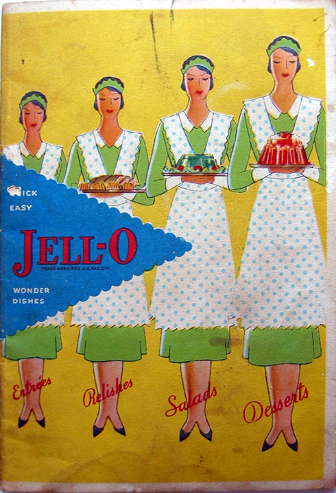 Cover, "Quick, Easy Jell-O Wonder Dishes: Entrees Relishes Salads Desserts" New York, N.Y.: General Foods Corp., 1930; LeRoy, N.Y.: Jell-O Co., Inc., 1930 This pamphlet was listed in the Catalog of Copyright Entries. Part 1. [B] Group 2. Pamphlets, as of December 16, 1930 and September 17, 1931. However, no copyright renewal record appears to have been registered; therefore this image is believed to be in the public domain in the United States of America. The front cover has a yellow background and a blue triangle behind the title. There are four maids dressed in green with green polka dot aprons, carrying a variety of Jell-O molds.